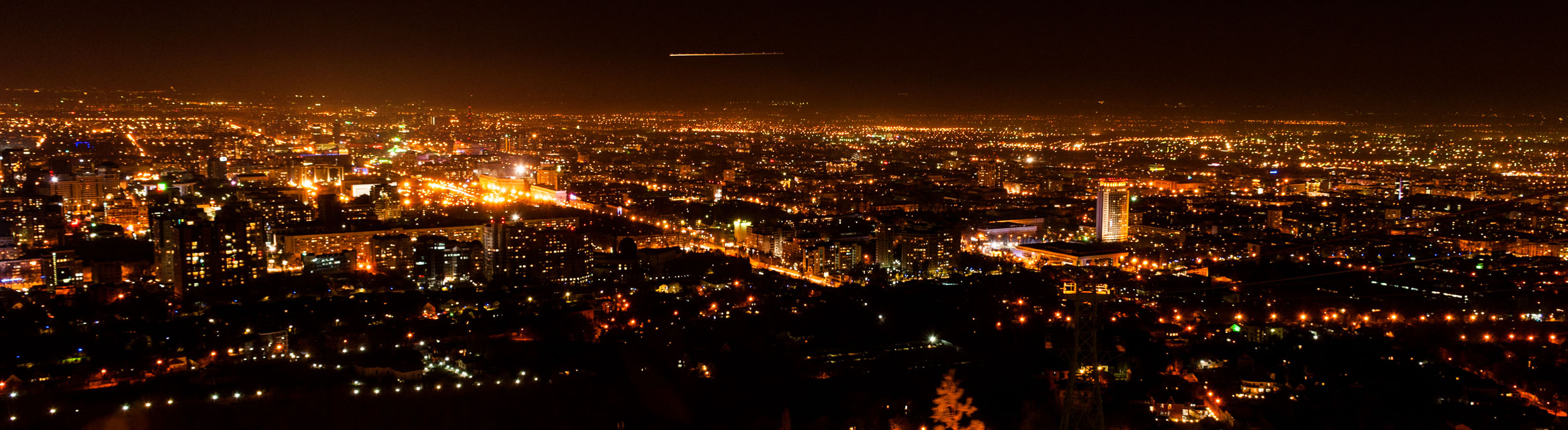 Almaty, Kok-tobe exposition